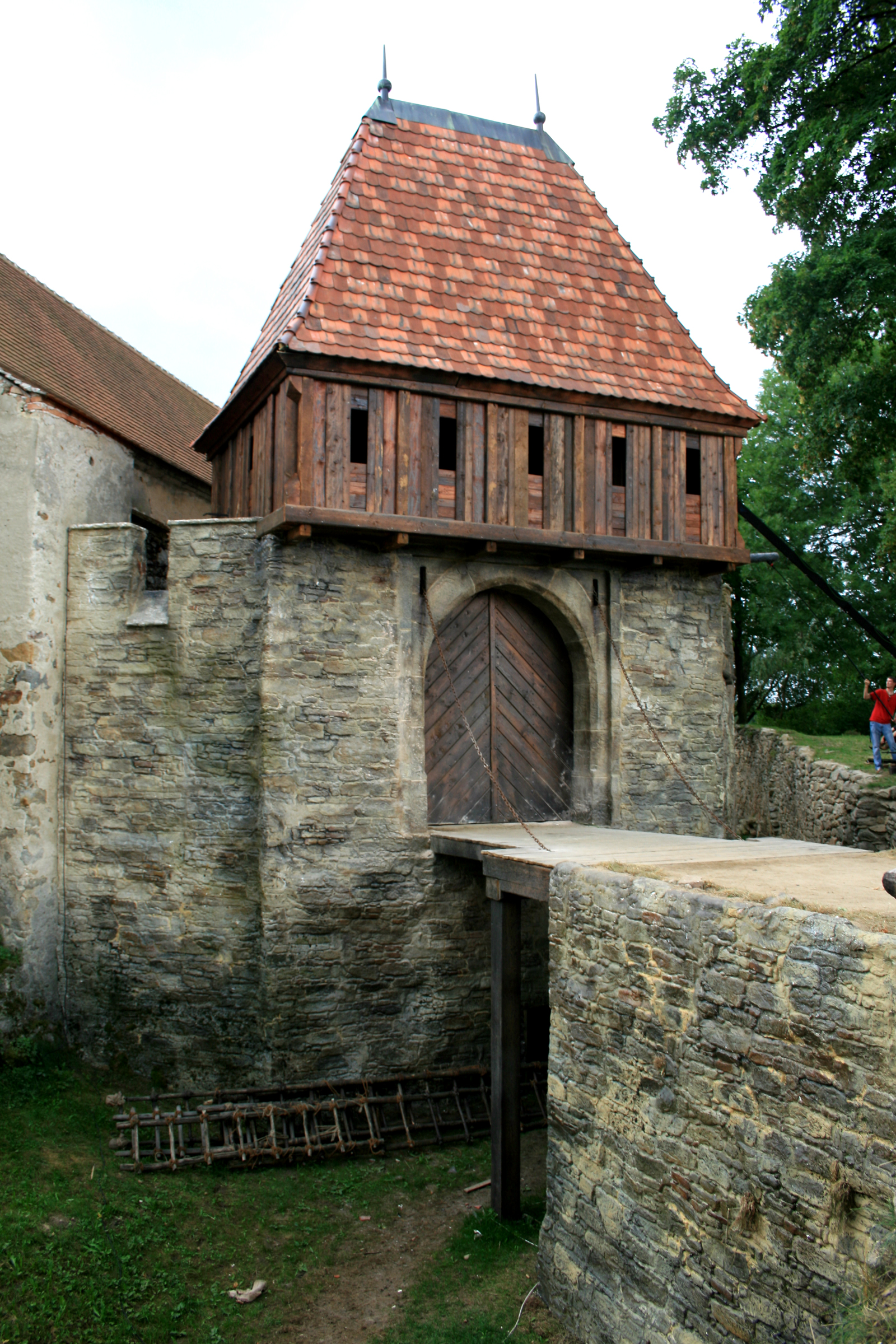 Medieval fortress Cuknštejn near Terezka waley not far from Nové Hrady, South Bohemia, Czech Republic